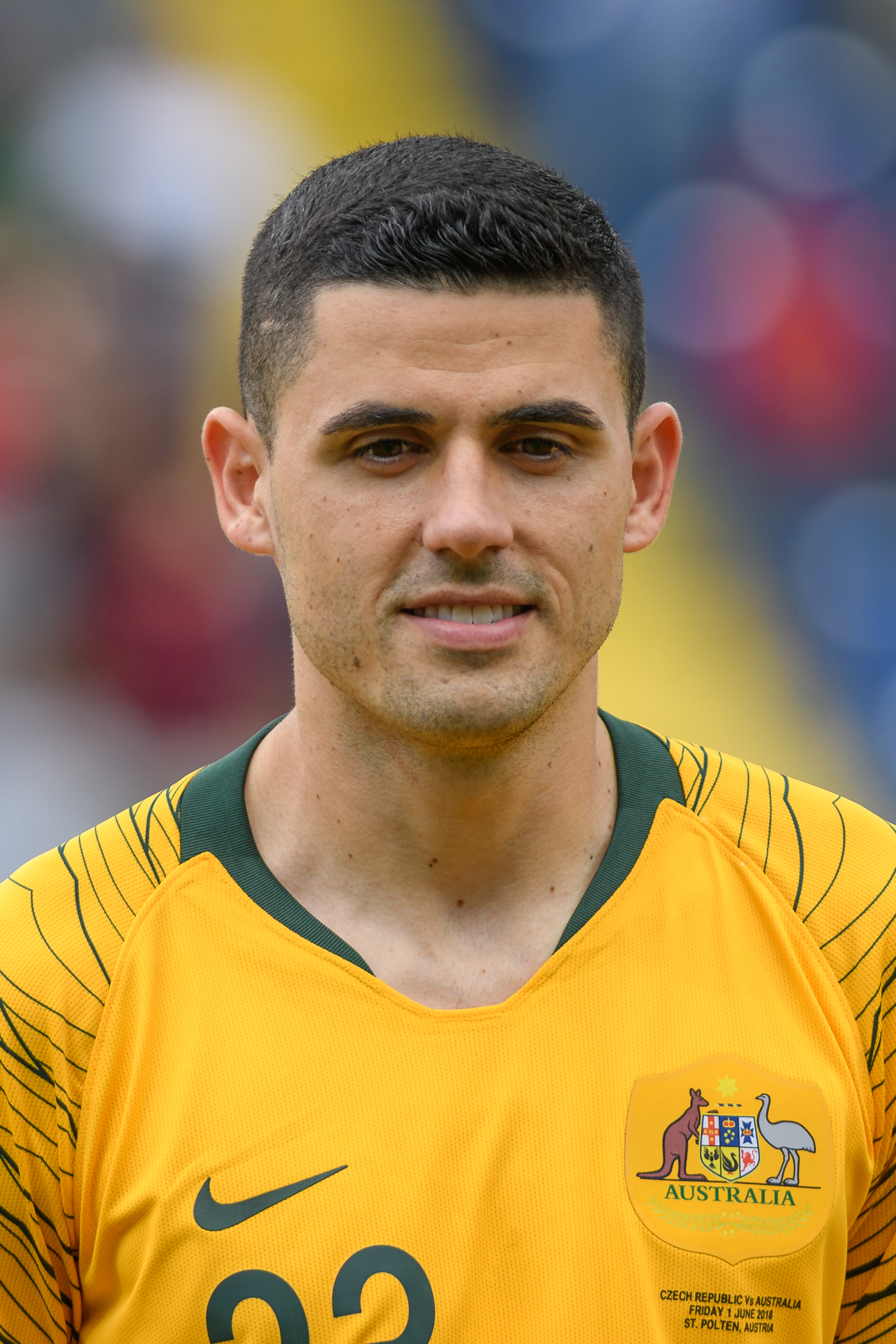 FIFA Friendly Match Czech Republic vs.Australia 2018/03/27. Picture shows Tomas Rogic (AUS).